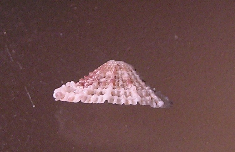 Diodora lincolnensis Cotton, 1930; family Fissurellidae; Southern Australia